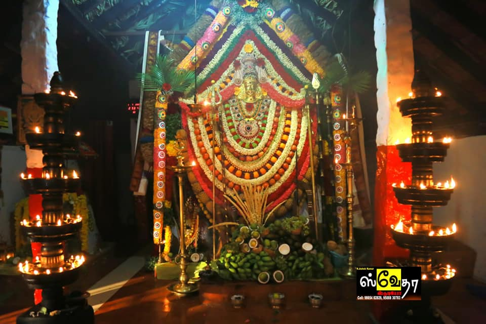 Sudalai Eswarar maramangalam